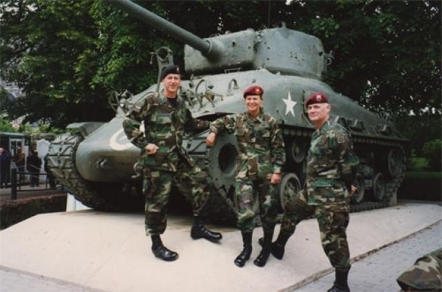 Ann Dunwoody, Normandy